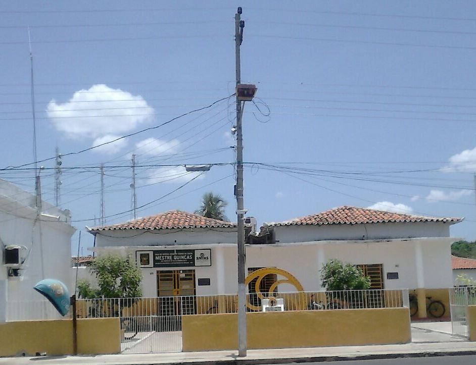 Municipal library of Batalha (Piauí)